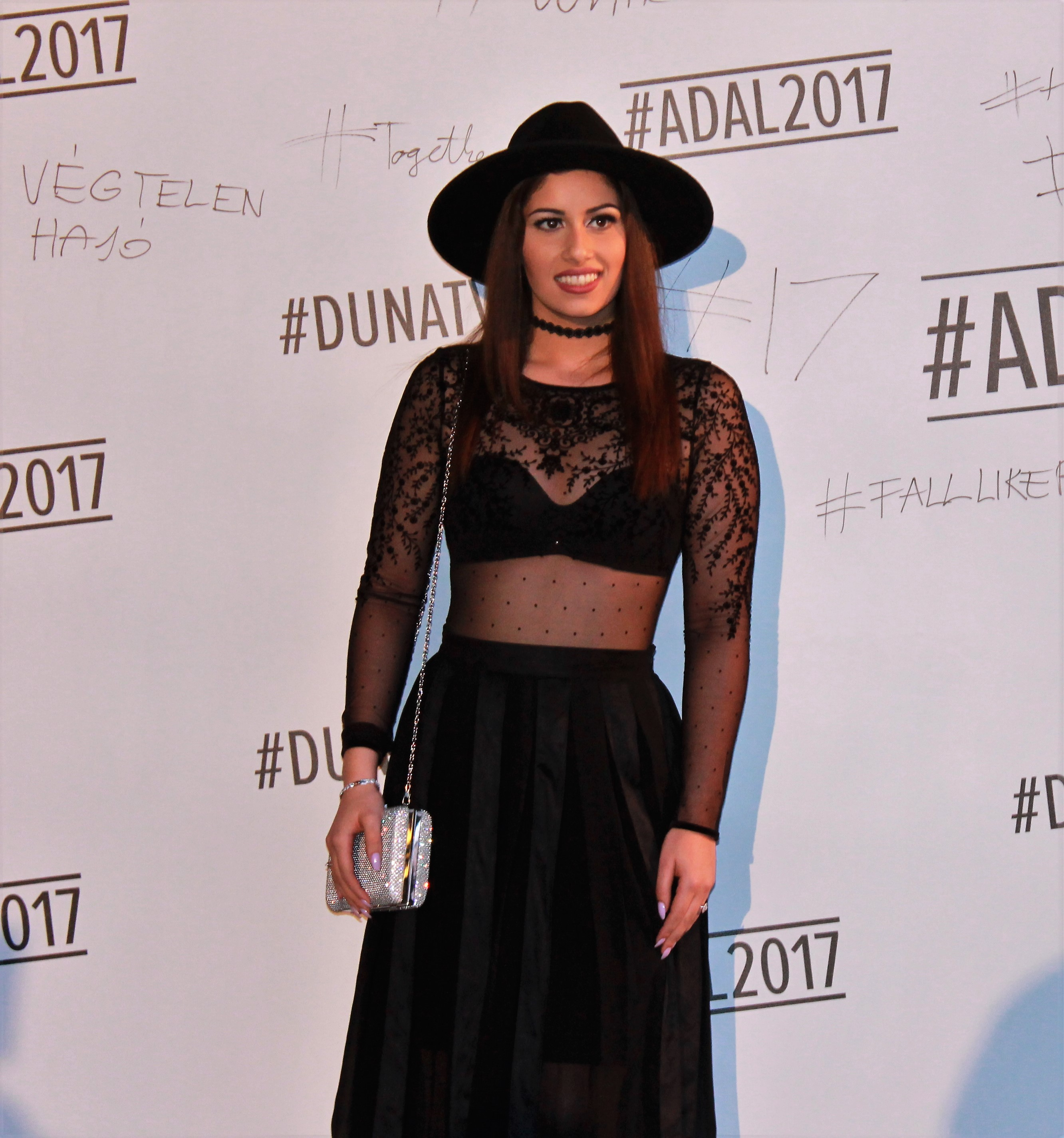 A Dal 2017 participant: Gigi Radics